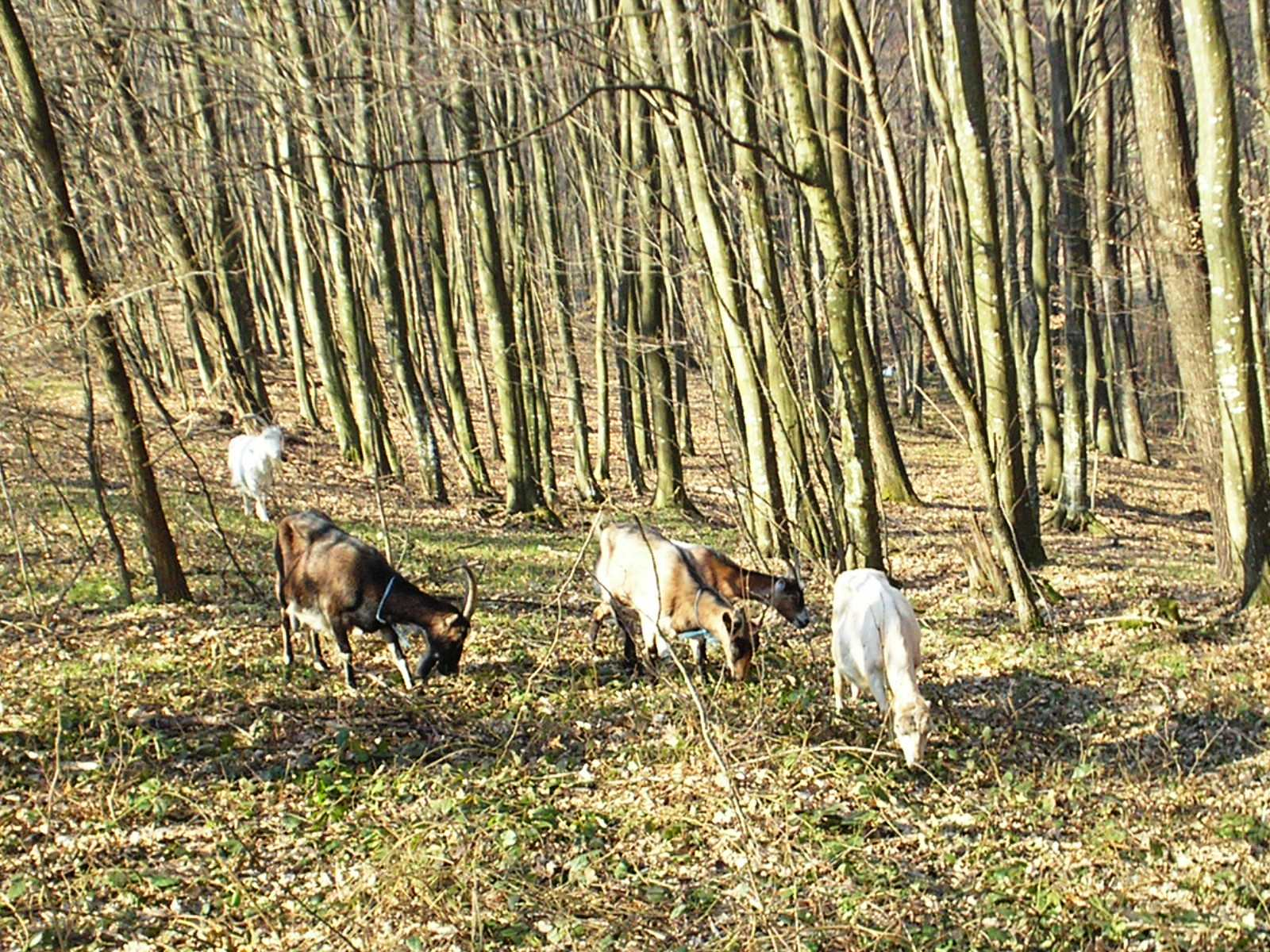 Domestic goats near forest, Daruvar, Croatia.